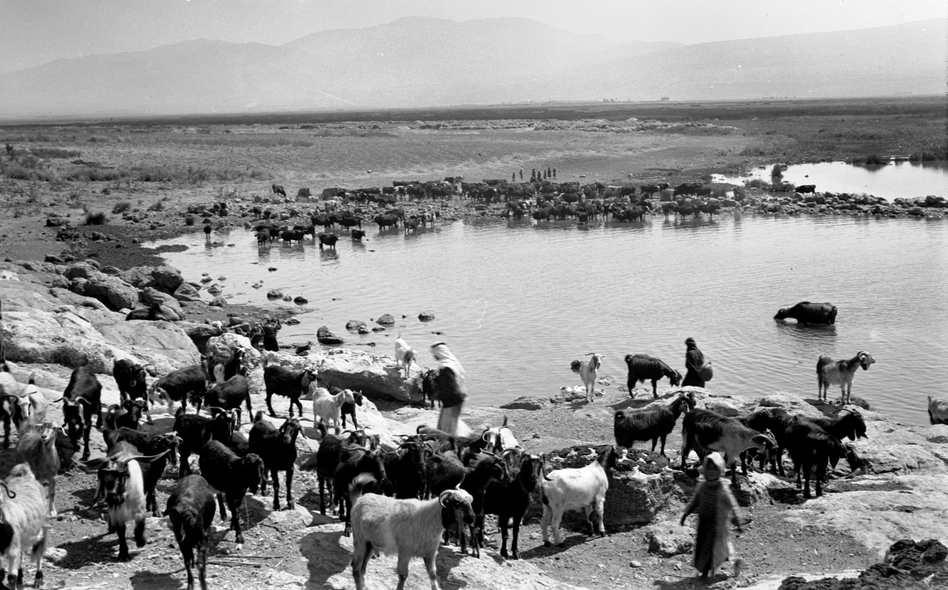 Galilee trip. Huleh District (Lake Merom). Mallaha source N.W. of Huleh Lake, Mt. Hermon in distance